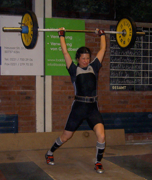 Clean and jerk